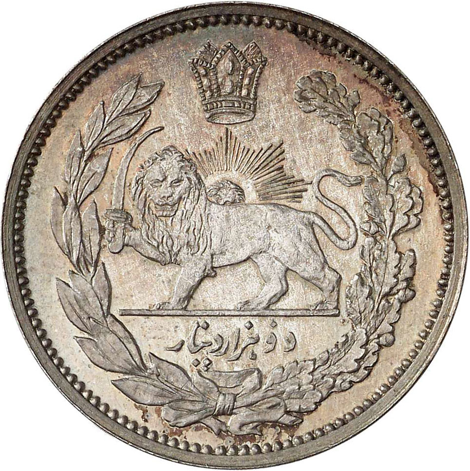 Obverse of the 2000 dinar (2 qeraans) Iranian coin of the Qajar dinasty, with the emblem of the Lion & sun & the Kiani crown. Date 1326 A.H. (lunar) = ~1907